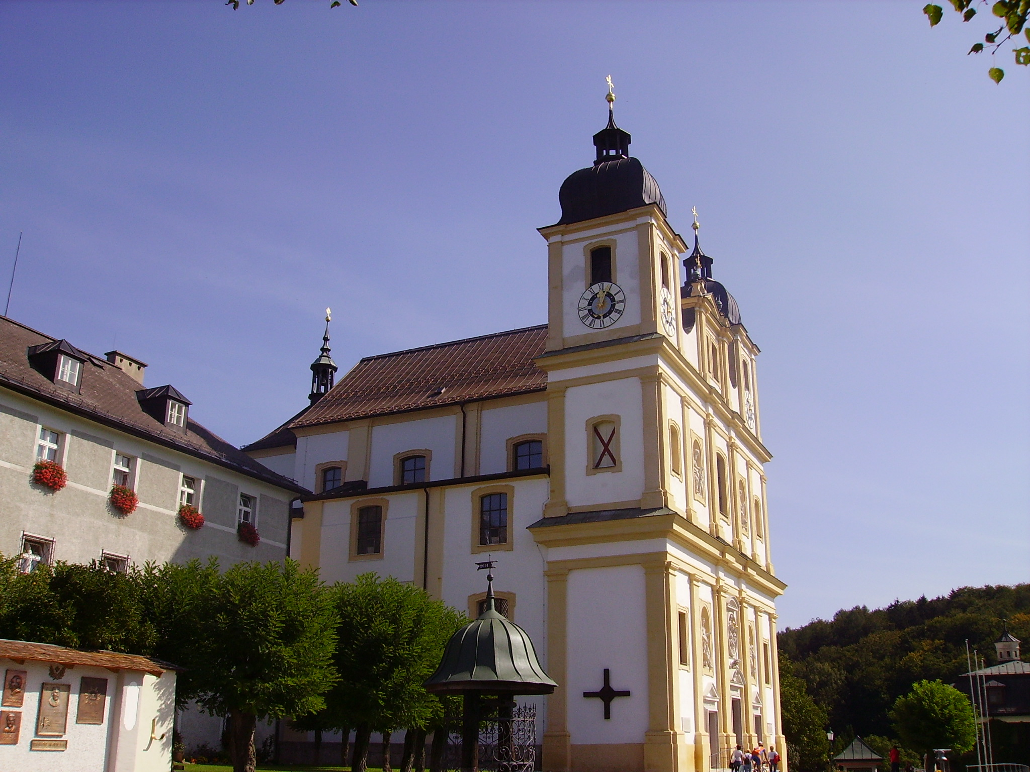 Basilica of Mary Plain, Bergheim